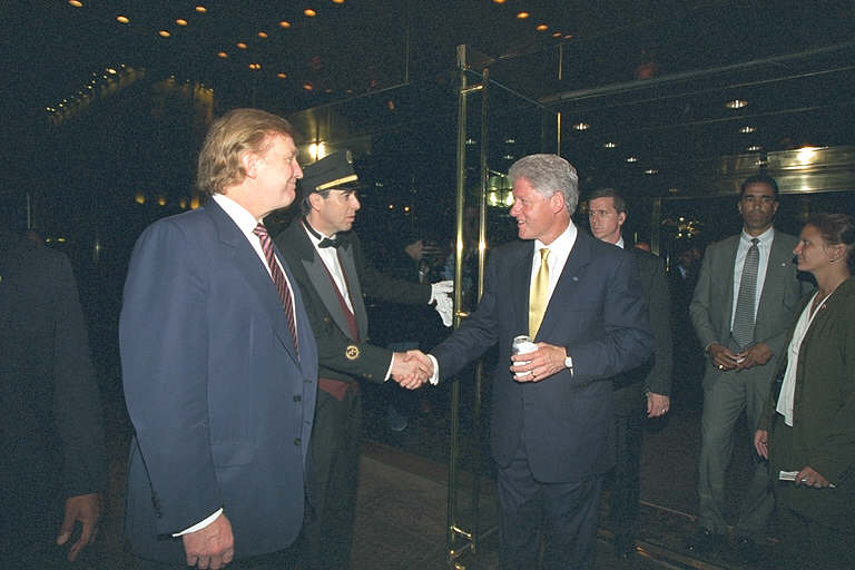 Donald Trump with Bill Clinton at Trump Tower in 2000